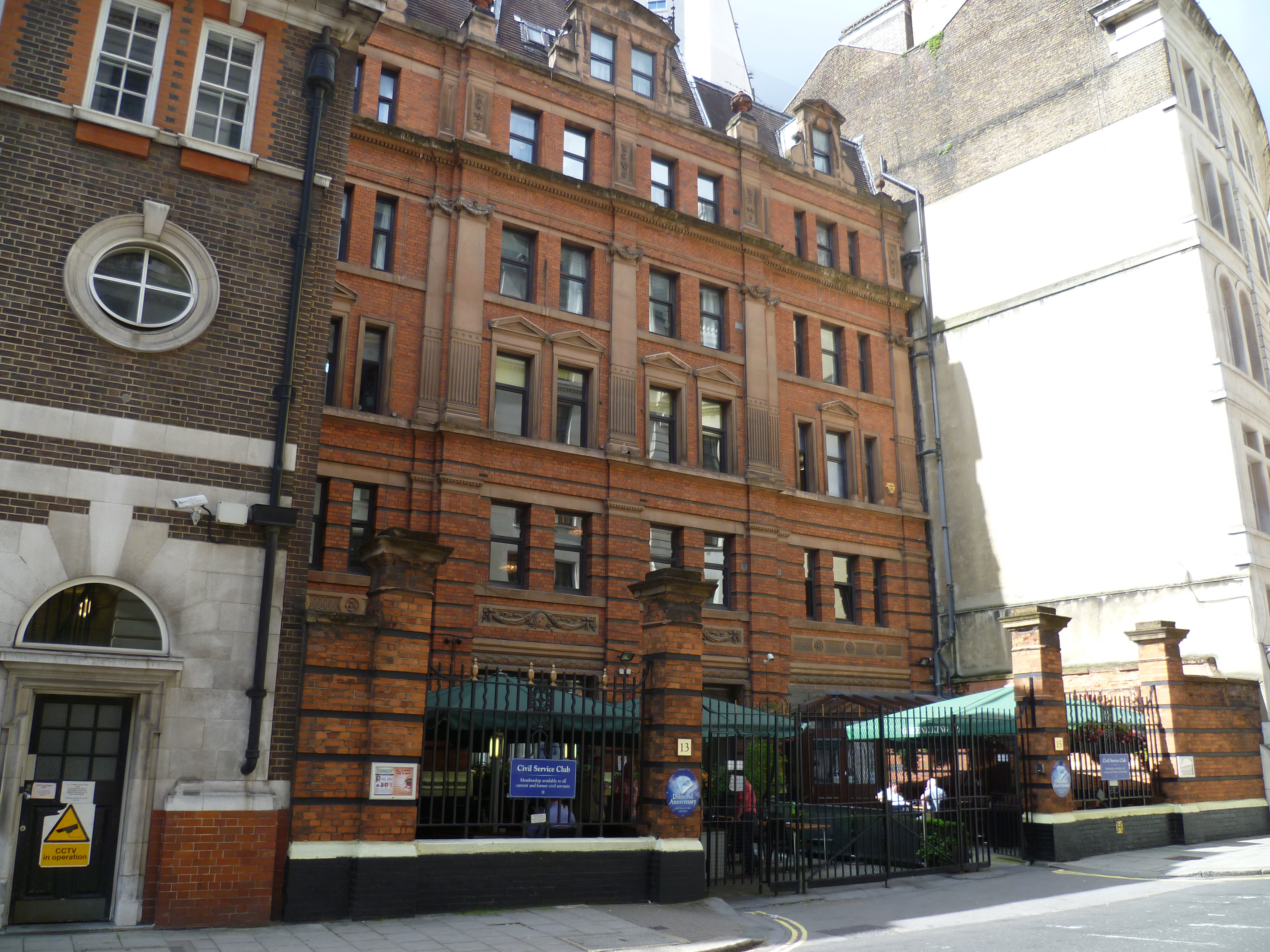 London